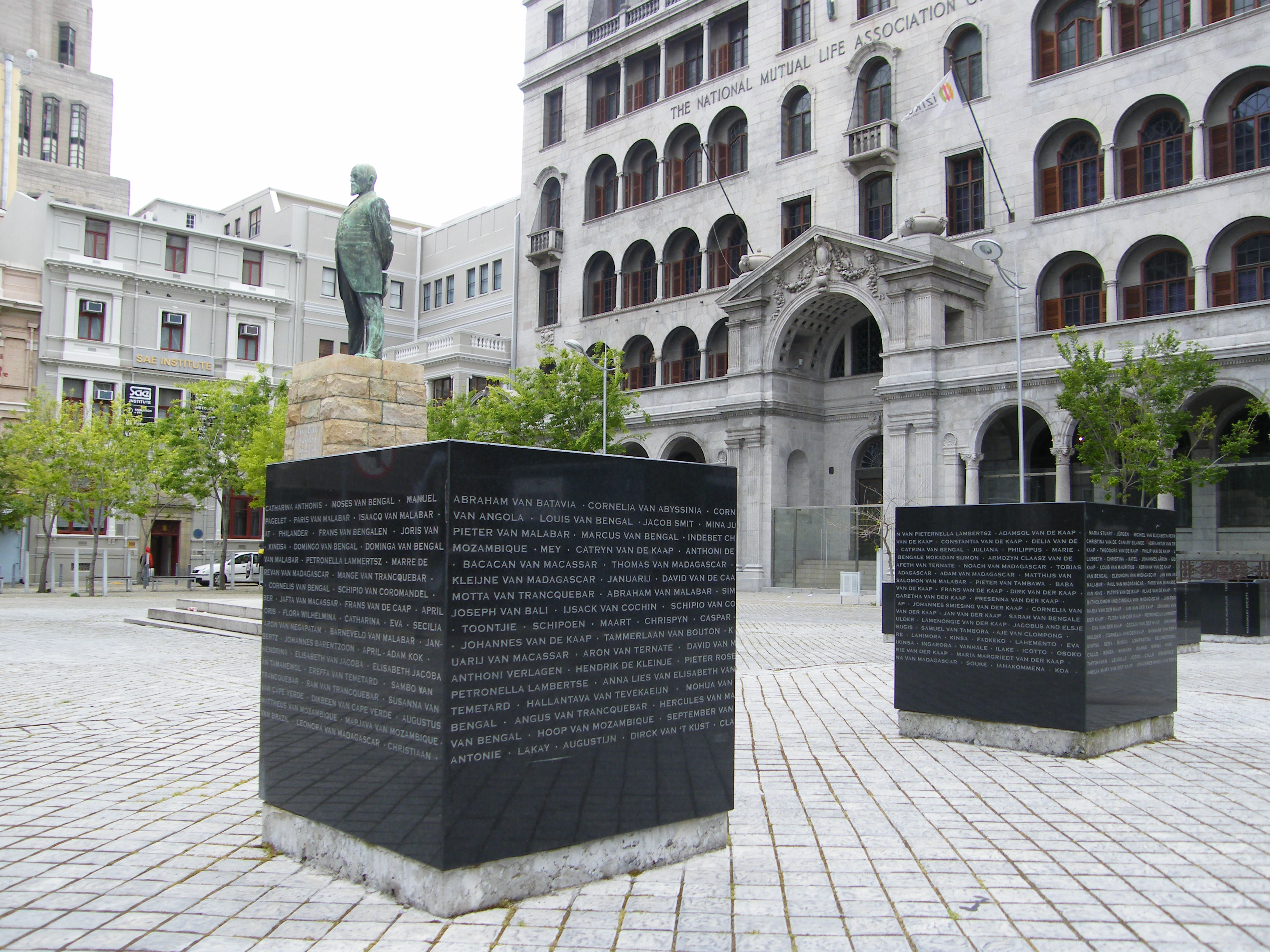 This media shows a South African Protected Site with SAHRA file reference 9/2/018/0140.